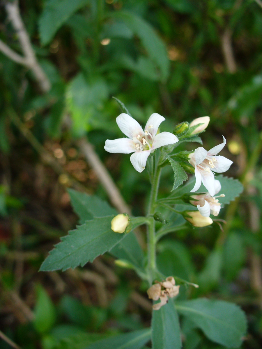 Elliott Key, Biscayne Nat. Park, Miami-Dade Co., FL, USA